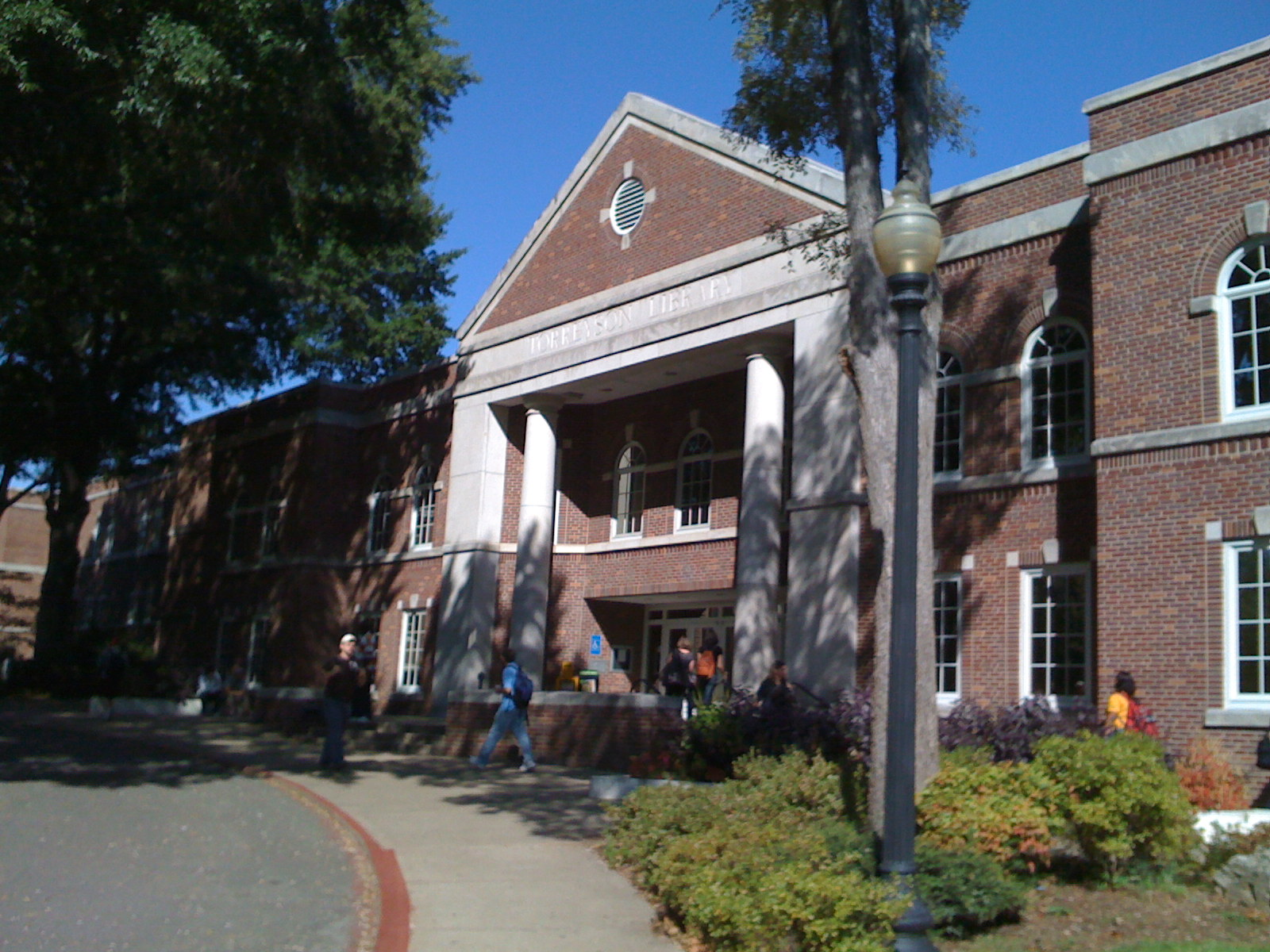 Torreyson Library at the University of Central Arkansas. Contributing property to the University of Central Arkansas Historic District on the National Register of Historic Places.